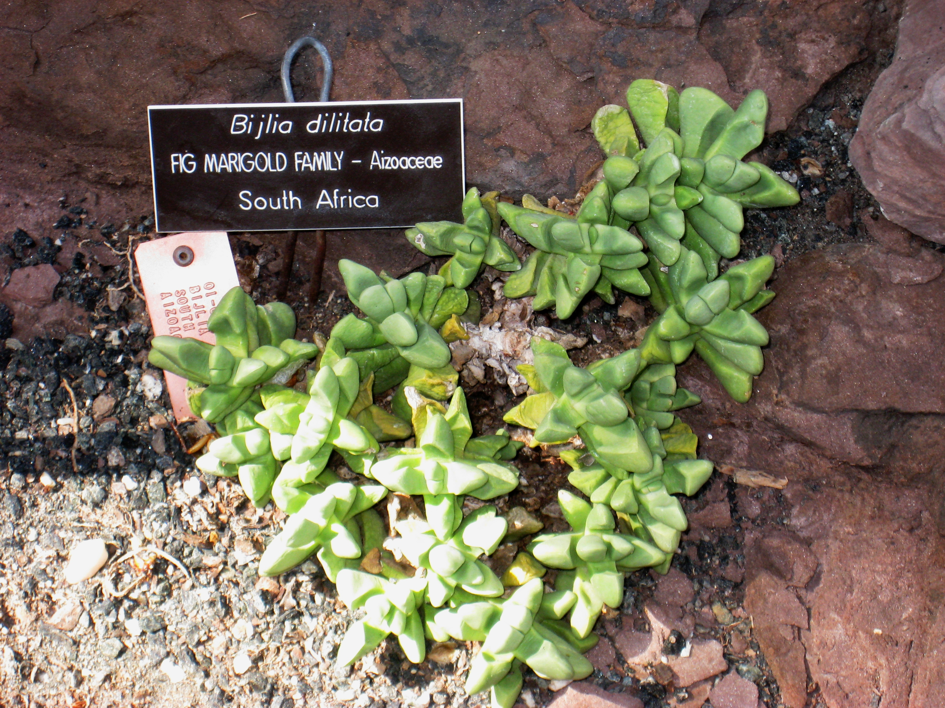 Bijlia dilitata, in the United States Botanic Garden, Washington, DC, USA.